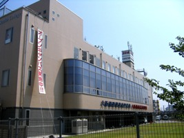 Osaka cooking and confectionery college